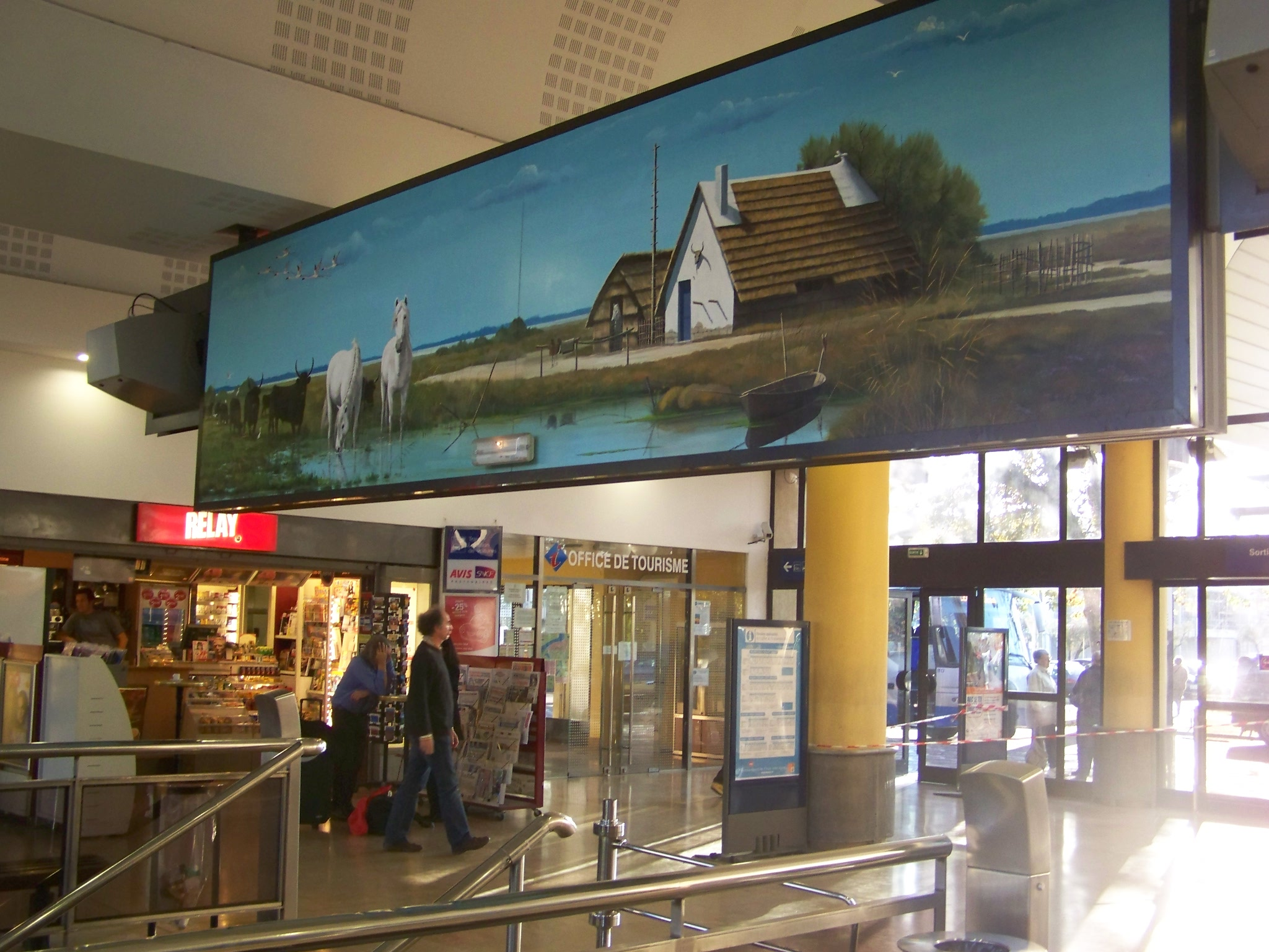 City of Arles railway station waiting hall, in Bouches-du-Rhône, France.